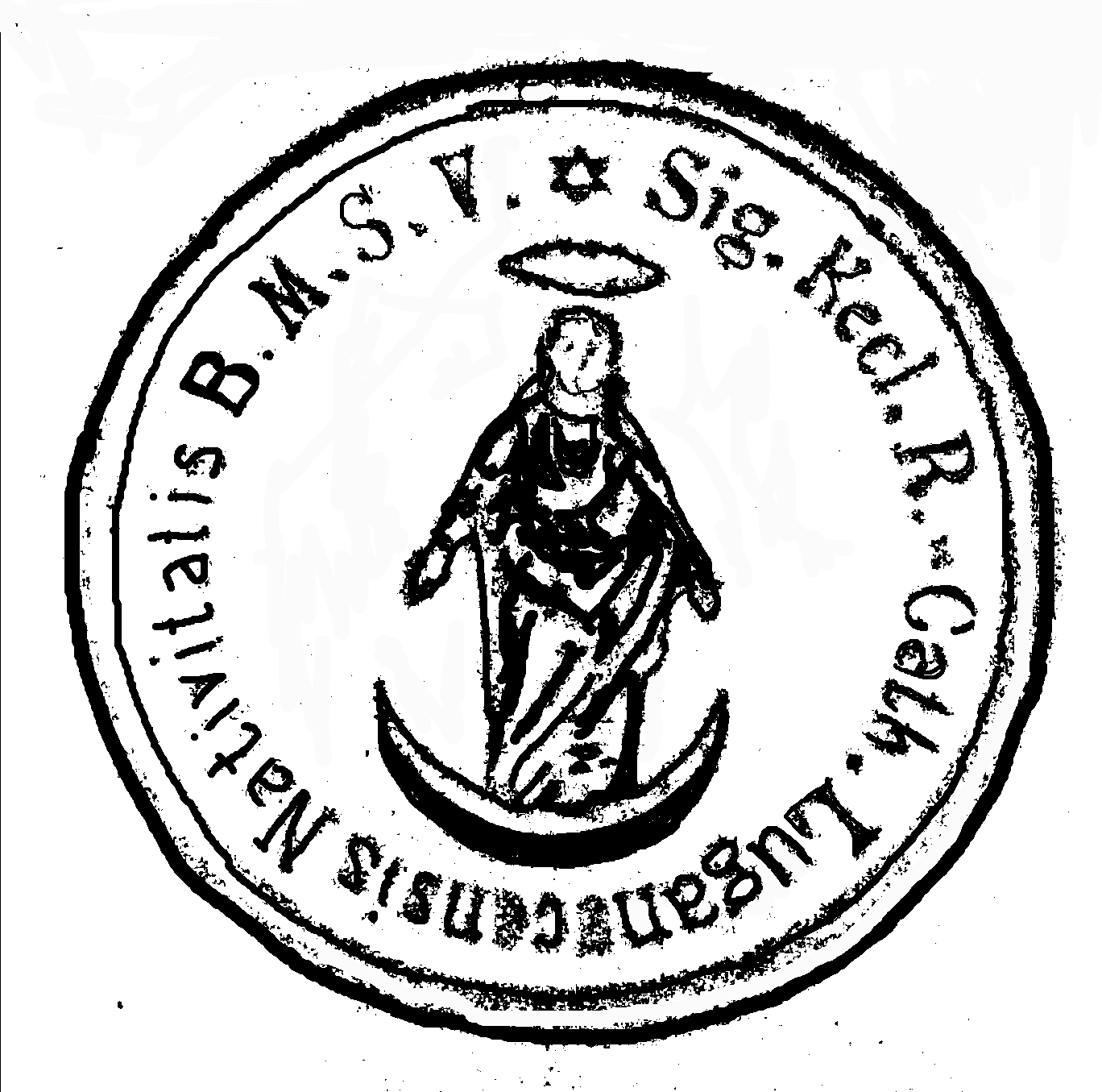 Seal of Catholic in Lugansk (Ukraine)